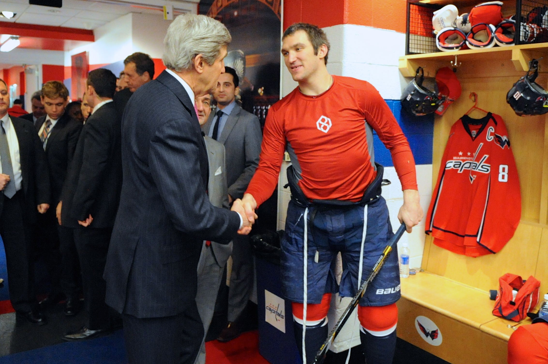 U.S. Secretary of State John Kerry greets Washington Capitals star -- and Russian Olympian -- Alex Ovechkin before dropping the puck and sending off Olympic hokcey players as the Caps played the Winnipeg Jets at the Verizon Center in Washington, D.C., on February 6, 2014. [State Department photo/ Public Domain]